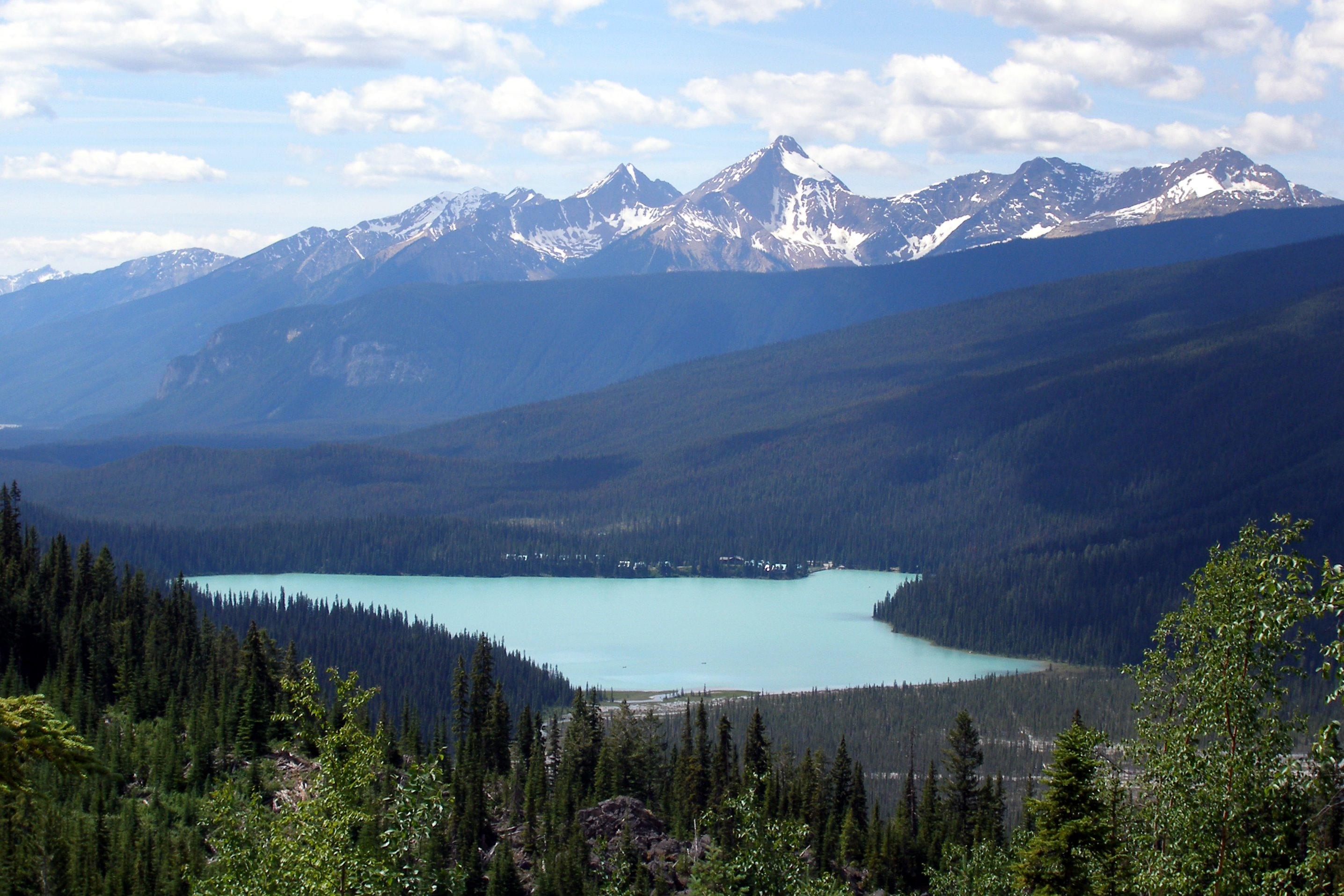 Emerald Lake in Yoho National Park, Canada.